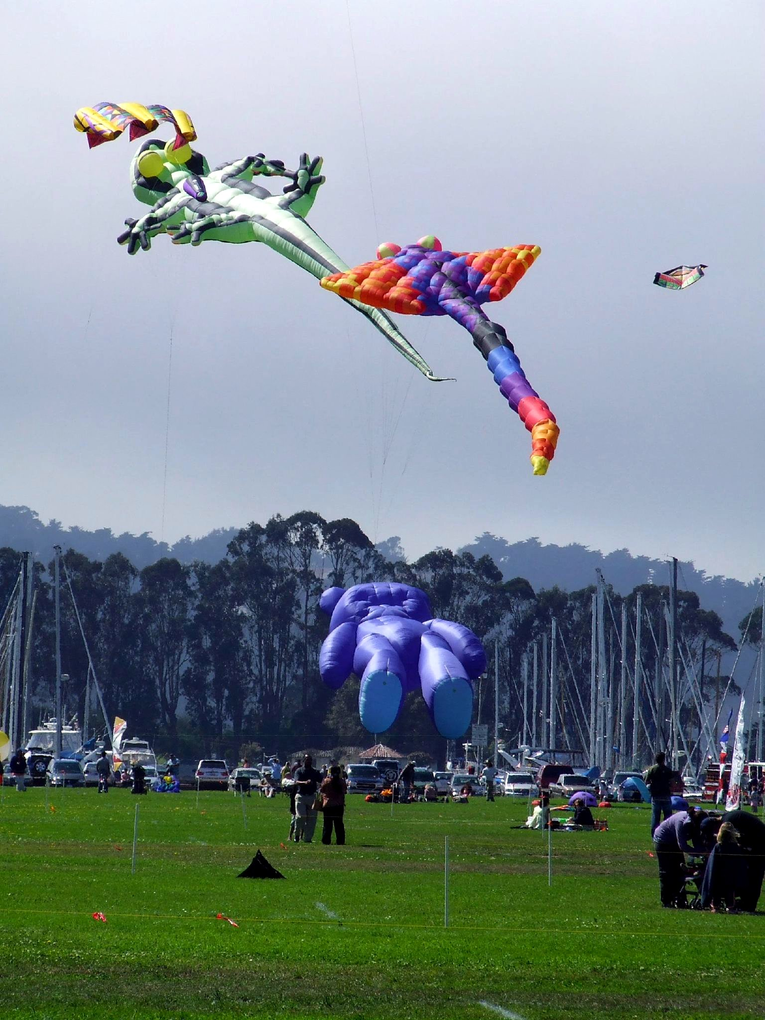 Kite festival at Marina Green, San Francisco